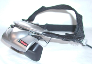 Picture taken by me, of my eMagin Z800.